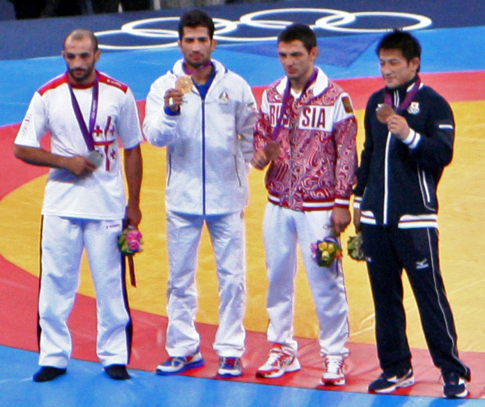 Medalists at the Men's 60 kg Greco Roman Wrestling, just after the medal ceremony. Left to right: Revaz Lashkhi (silver), Omid Norouzi (gold), Zaur Kuramagomedov (bronze) and Ryutaro Matsumoto (bronze).